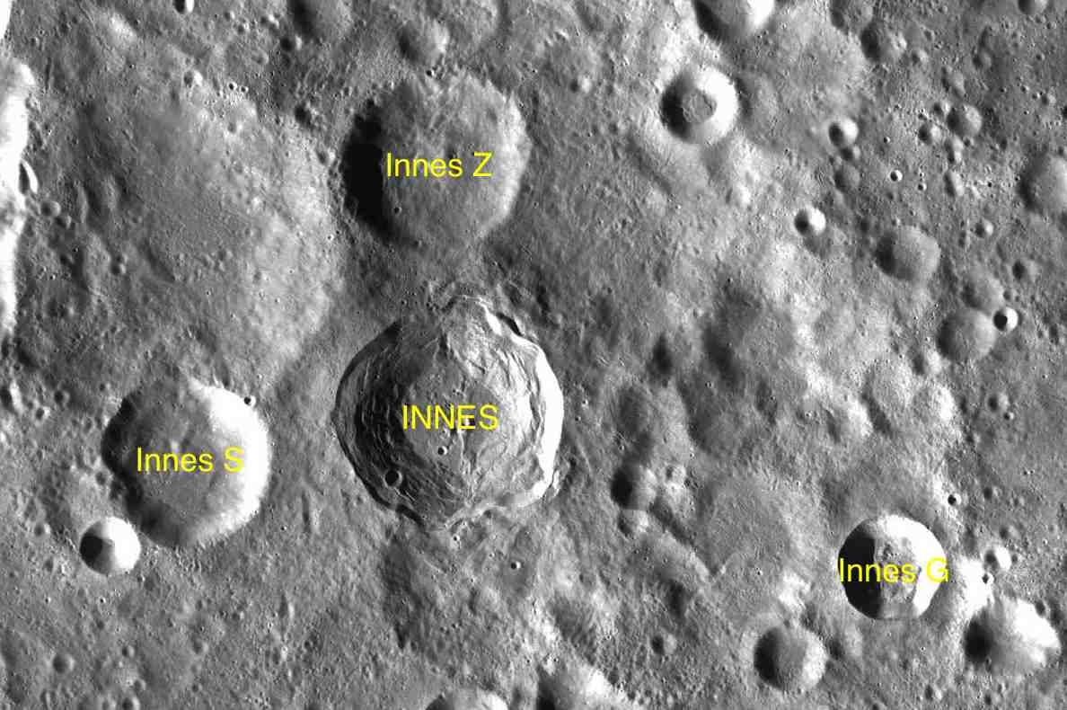 Part of the chart LAC-47 used for the presentation